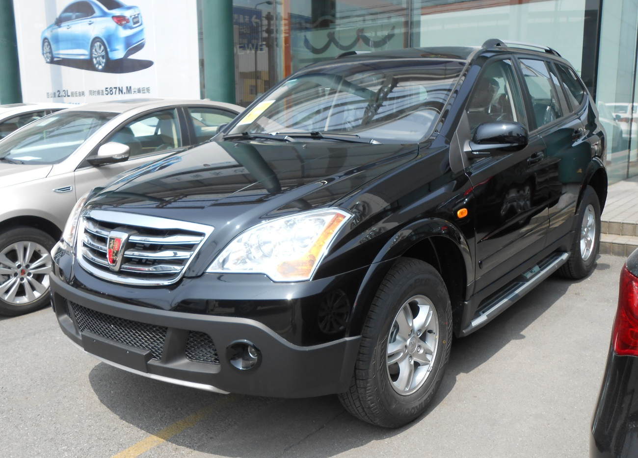 Roewe W5 photographed in Shanghai, China.